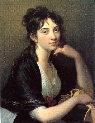 Thomasine Christine Gyllembourg-Ehrensvärd (1773-1856), Danish author, was born at Copenhagen. Her maiden name was Buntzen. Her great beauty early attracted notice, and before she was seventeen she married the famous writer Peter Andreas Heiberg. She bore him a son in the following year, the poet and critic Johan Ludvig Heiberg.